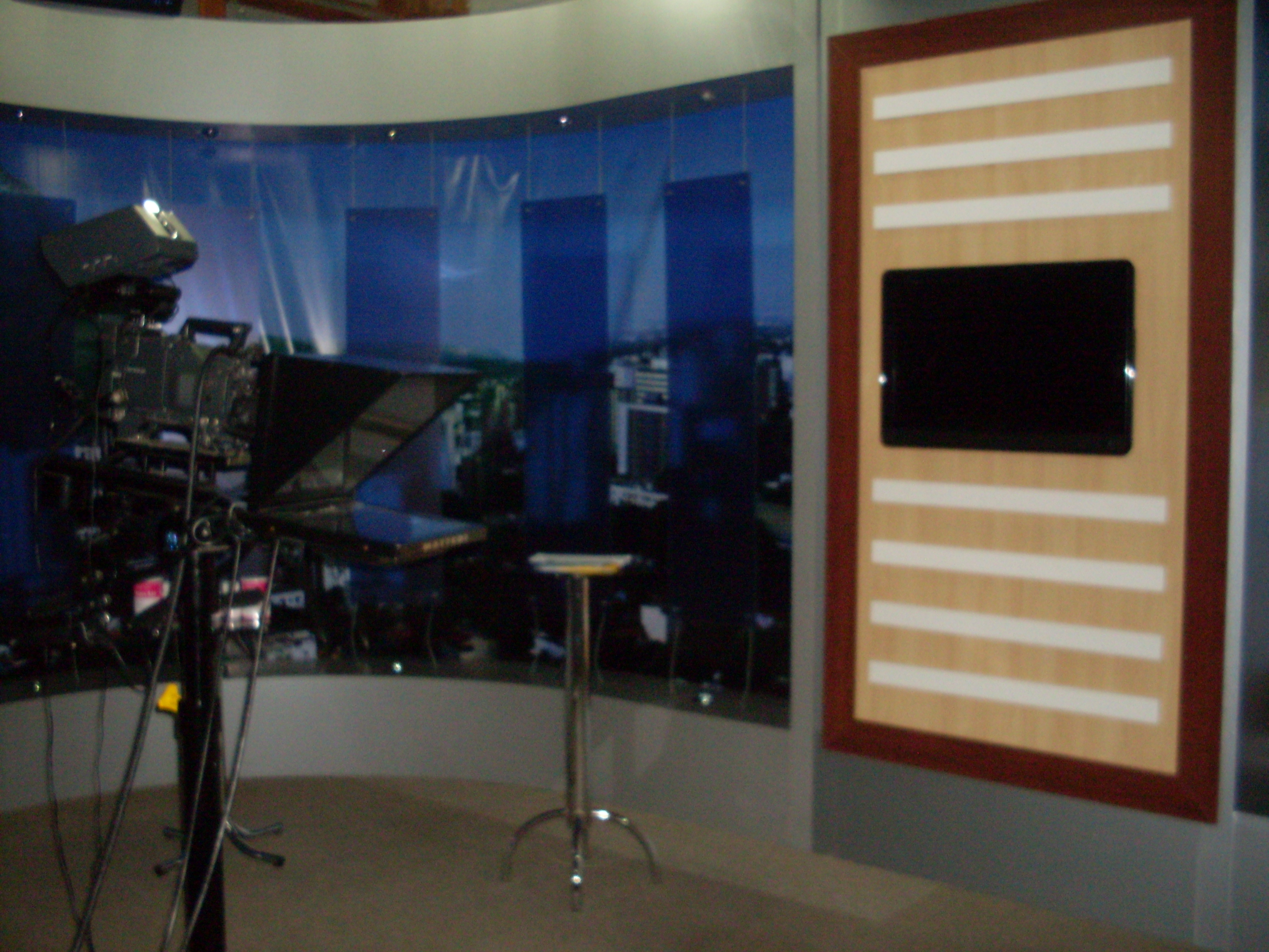 Estúdios da TV Leste em Governador Valadares